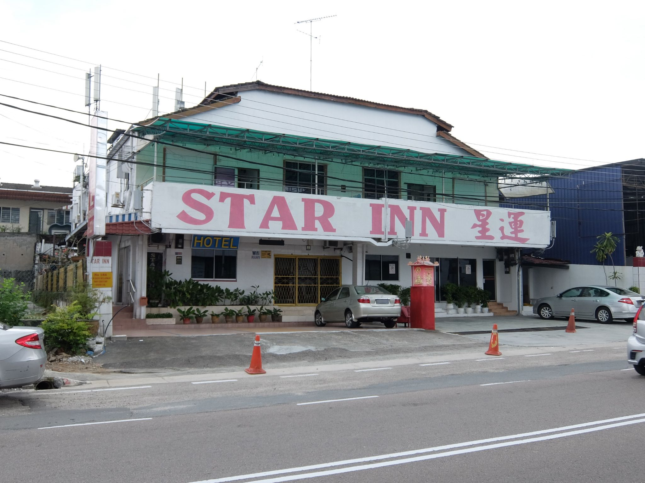 Star Inn, Taman Century, Johor Bahru, Johor, Malaysia